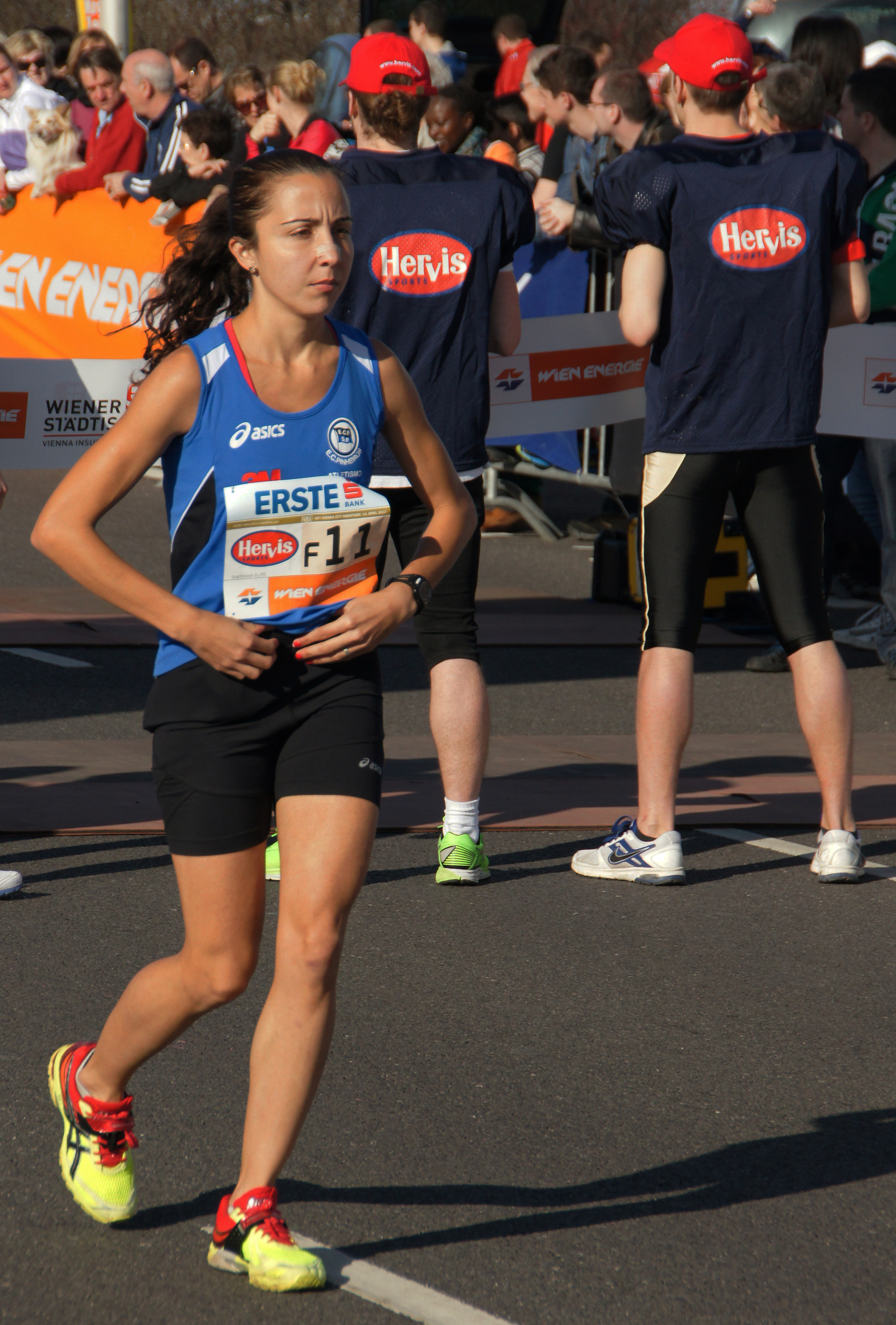 Vienna 2013-04-14 Vienna City Marathon - F11 Michele Chagas, BRA, preparing for race a